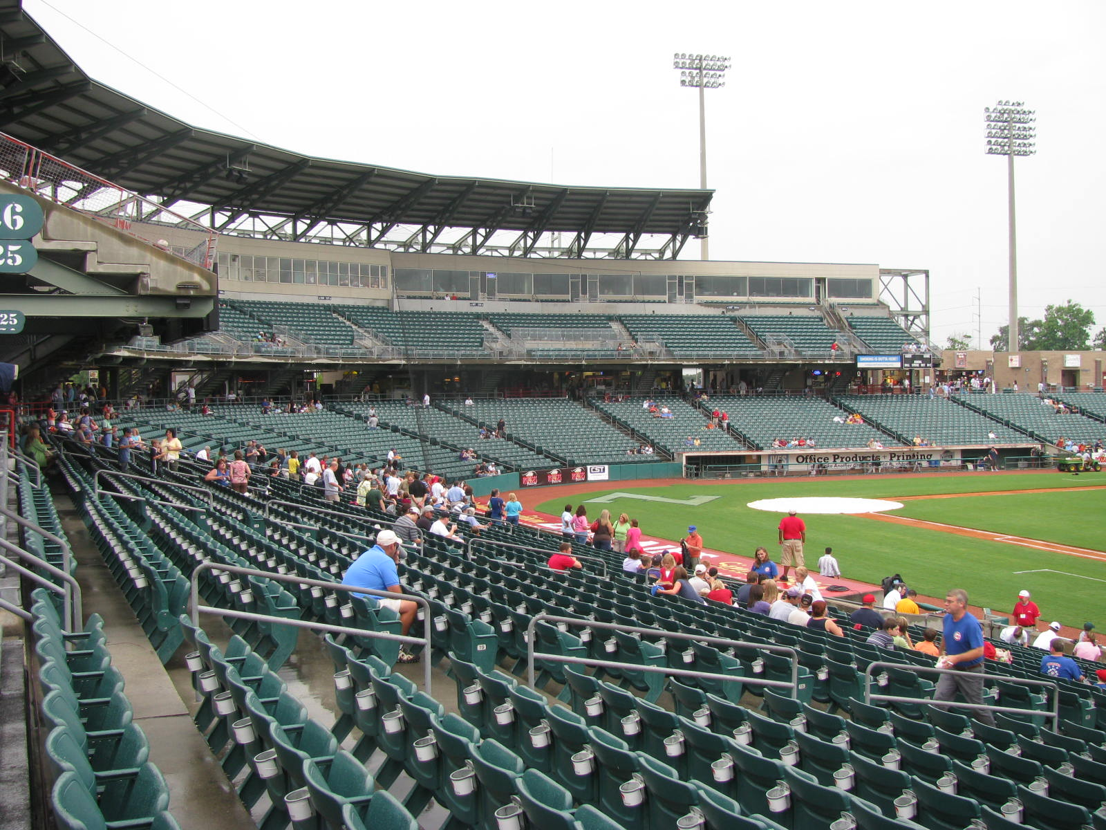 Home of the New Orleans Zephyrs, the AAA Baseball Team. We went to the game 8/1/08 against the Tuscon Sidewinders....ZEPHYRS WIN!!